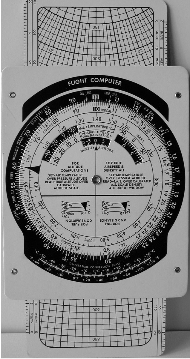 Front side of a flight computer commonly used by student pilots.